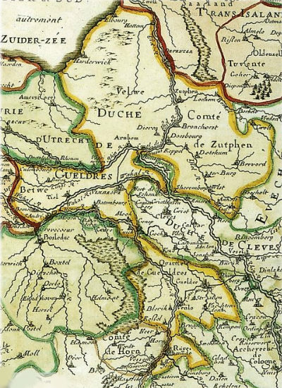 Les XVII provinces des Pais-Bas [Kartenmaterial] : avec privilege de sa Majesté pour vingt ans / par P. Du-Val geographe ordinaire du roy